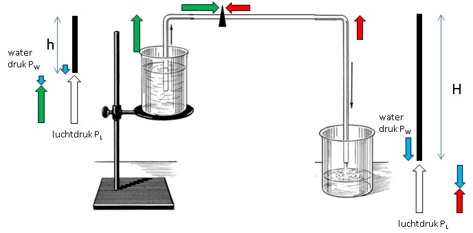 Siphon principles